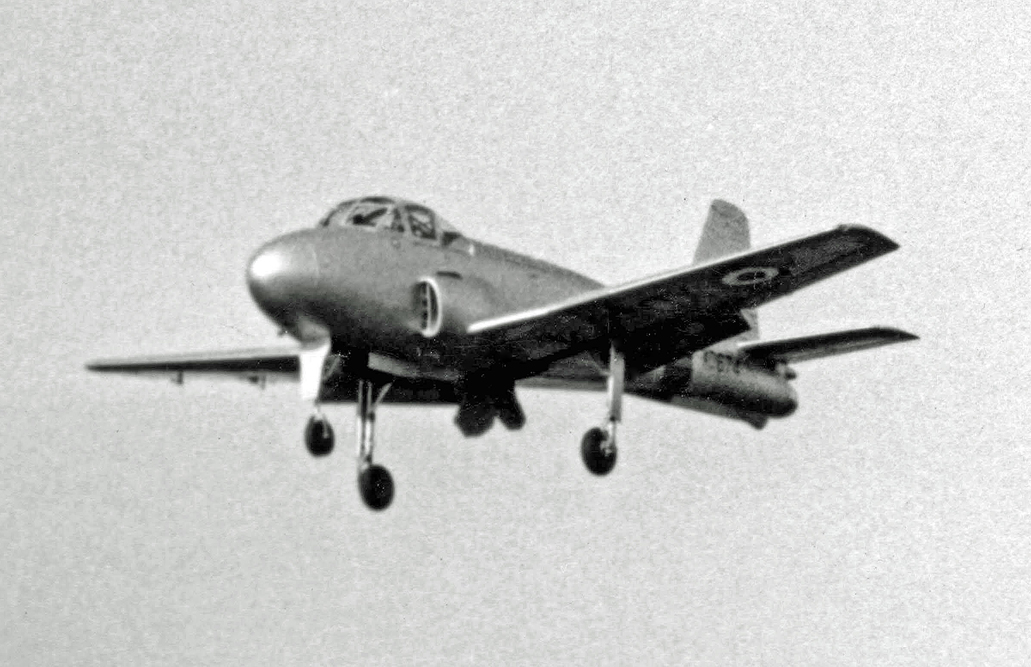 The prototype Hunting/BAC Jet Provost T.1 XD674 landing at the 1954 Farnborough Air Show